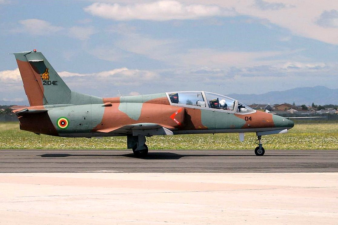 K-8 Karakorum Trainer (Air Force of Zimbabwe) at Ysterplaat Airshow, Cape Town. Straightened and cropped version of original image; image edited with Picasa software.